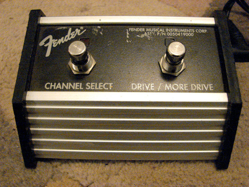 Footswitch